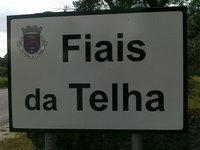 Fiais da Telha